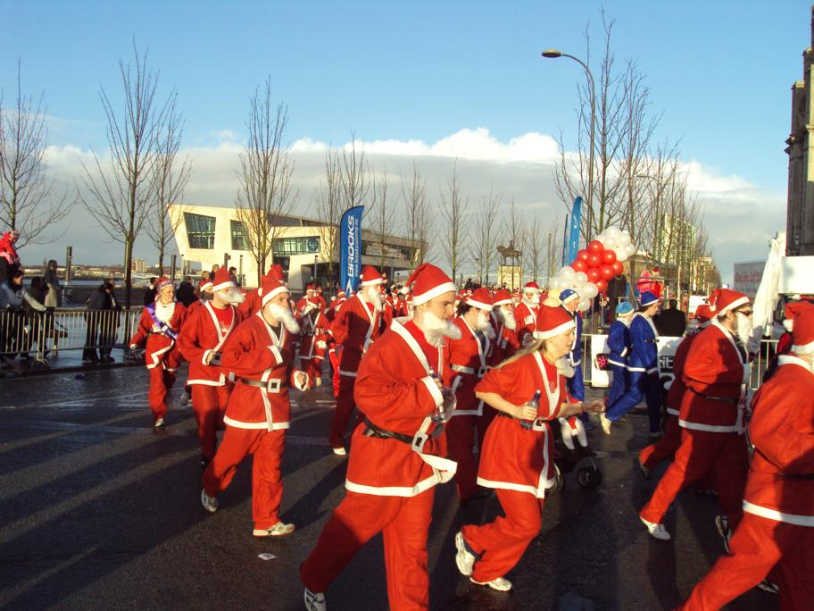 Runners emerge from the starting line at the 2009 Santa Dash, Liverpool, England.